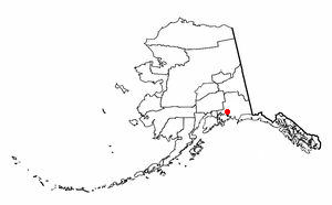 Adapted from Wikipedia's AK borough maps by Seth Ilys.